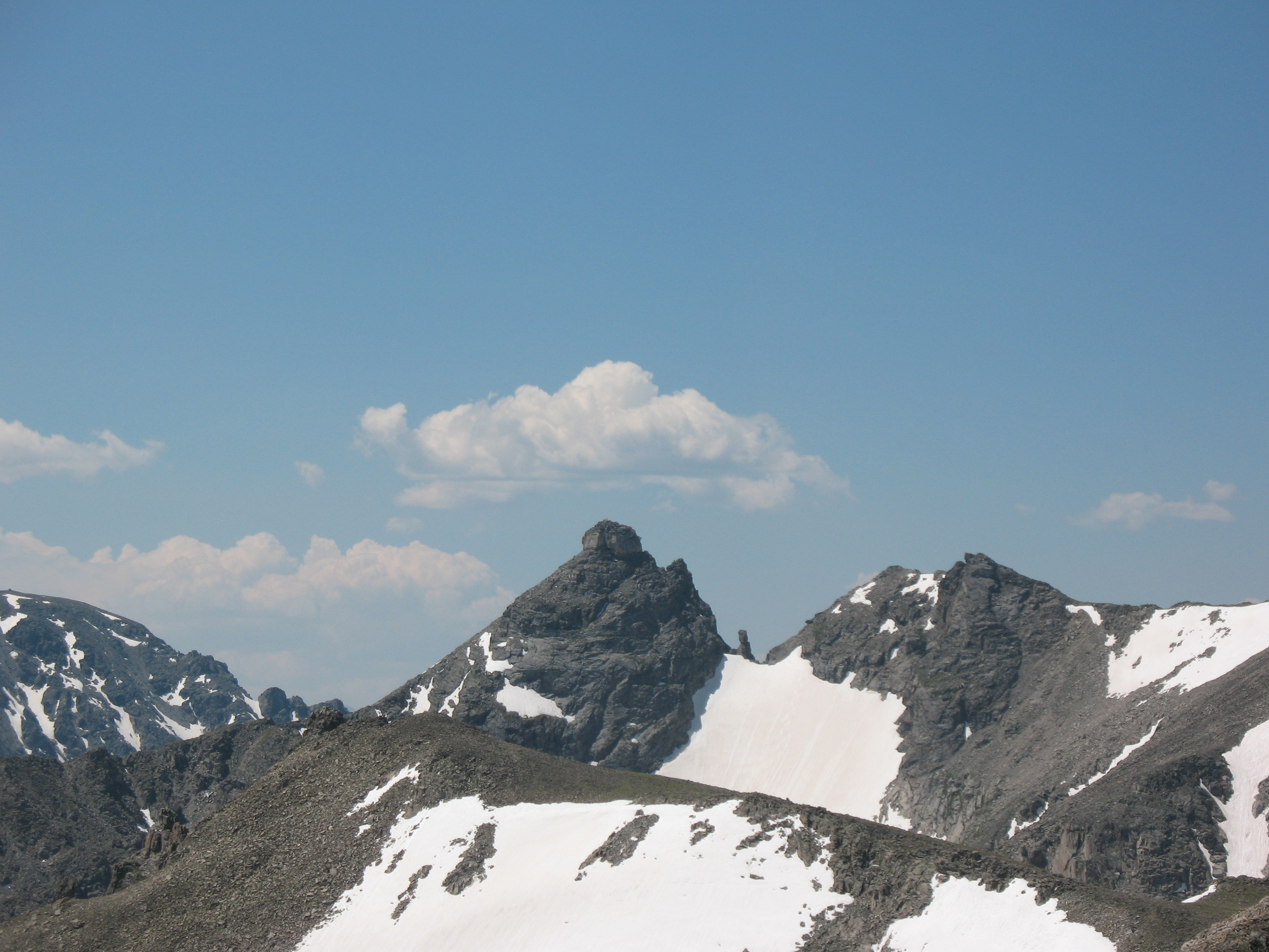 A view of Navajo Peak from the North.